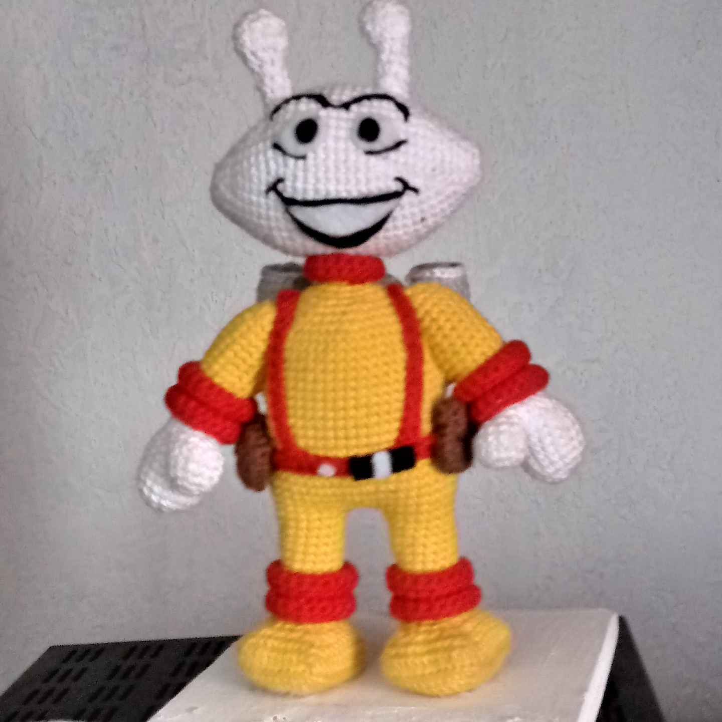 He is a character from the Mampato comic.